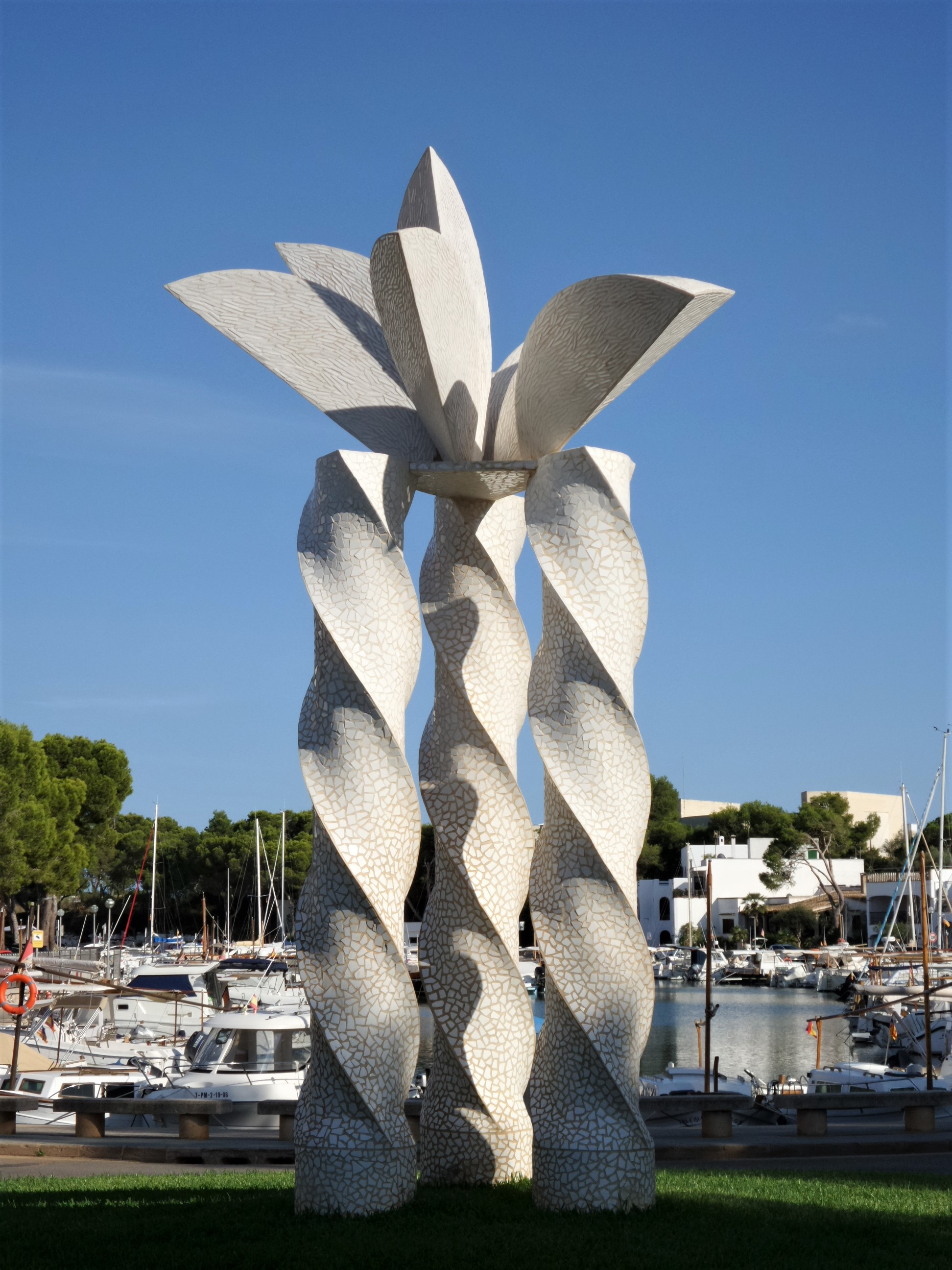 Portopetro Traffic Circle 3